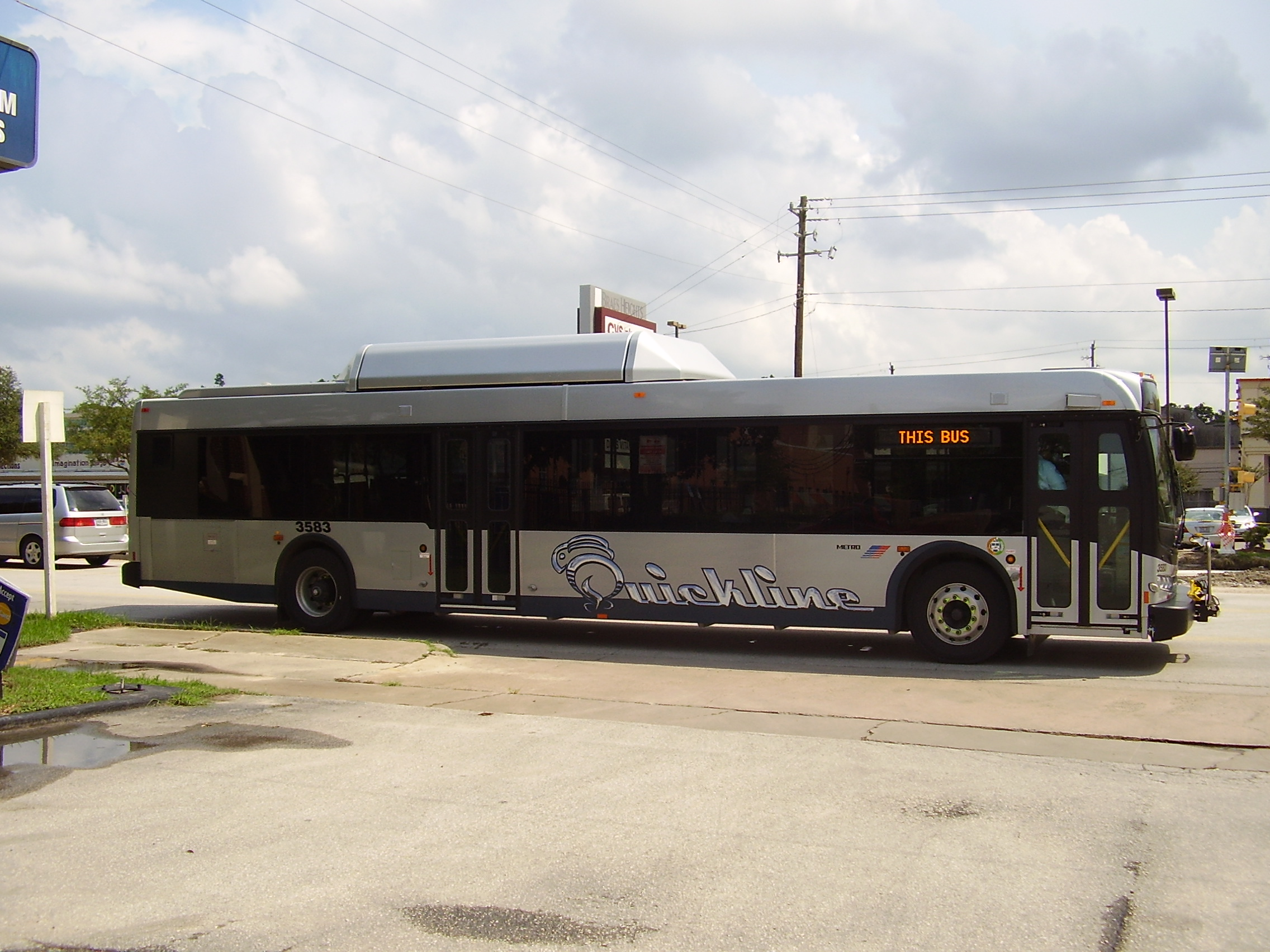 Metropolitan Transit Authority of Harris County, Texas Quickline